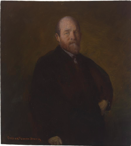 Henry George Artist George de Forest Brush, 28 Sep 1855 - 24 Apr 1941 Sitter Henry George, 2 Sep 1839 - 29 Oct 1897 Date 1888 Type Painting Medium Oil on wood Dimensions Panel: 22.5 x 20 x 0.3cm (8 7/8 x 7 7/8 x 1/8") Frame: 33.3 x 30.5 x 5.7cm (13 1/8 x 12 x 2 1/4") Credit Line National Portrait Gallery, Smithsonian Institution Object number NPG.67.53 Exhibition Label "The great American Republic must be a republic in fact as well as form," wrote economist Henry George. As American industry after the Civil War spawned undreamed-of wealth for some and a new and excruciating poverty for others, George became a leading voice in efforts to reform the nation's free-enterprise system. His stinging yet highly popular critique of American capitalism, Poverty and Progress (1879), described with great eloquence the inequities in modern society. According to George, poverty's root cause lay in ever-rising land values. Levying a heavy "single tax" on those values would, he asserted, undermine monopolies, distribute wealth more evenly, and eliminate poverty. Although George failed in his attempt to win elected office, his writings found widespread support, especially within the burgeoning labor movement. Data Source National Portrait Gallery See more items in National Portrait Gallery Collection Exhibition American Origins On View NPG, East Gallery 123